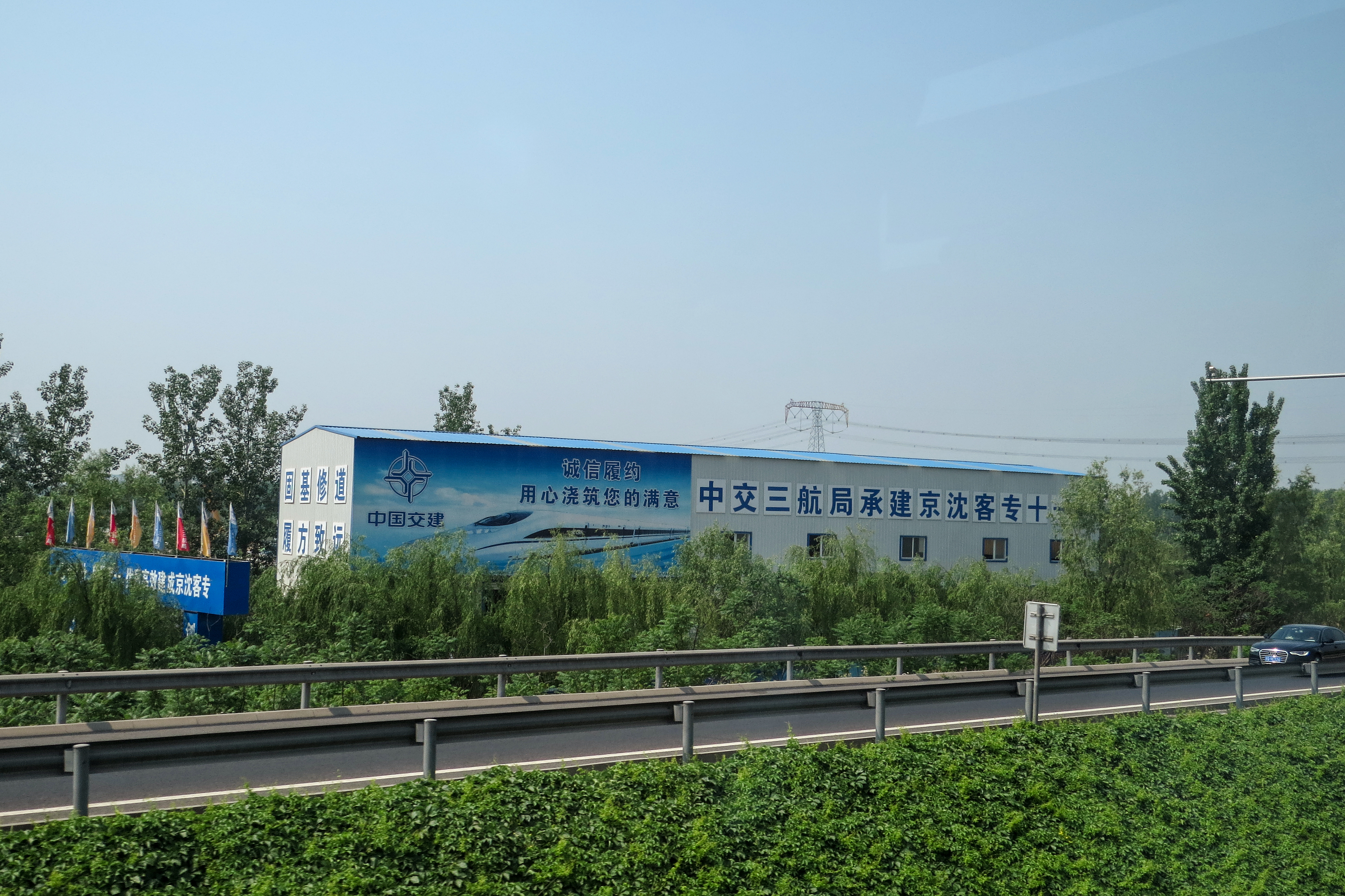 Just southeast of Suanzaoling Bridge, 6th Ring Rd.